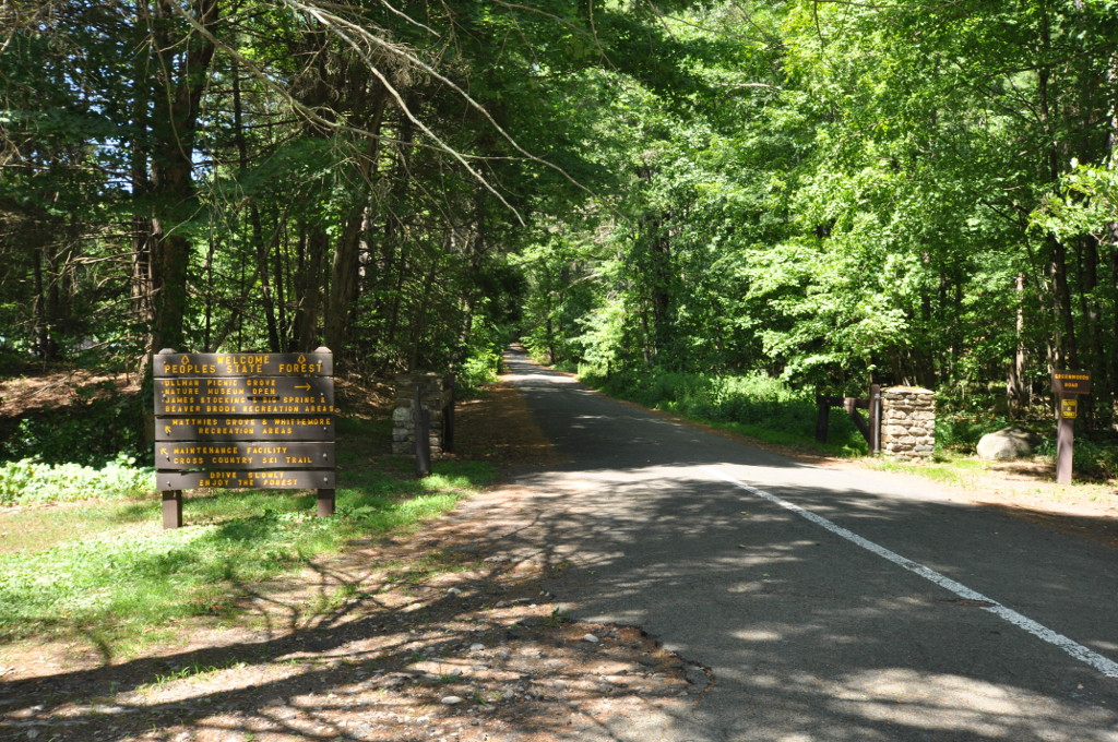 Entrance sign, Peoples State Forest, Barkhamsted, Connecticut